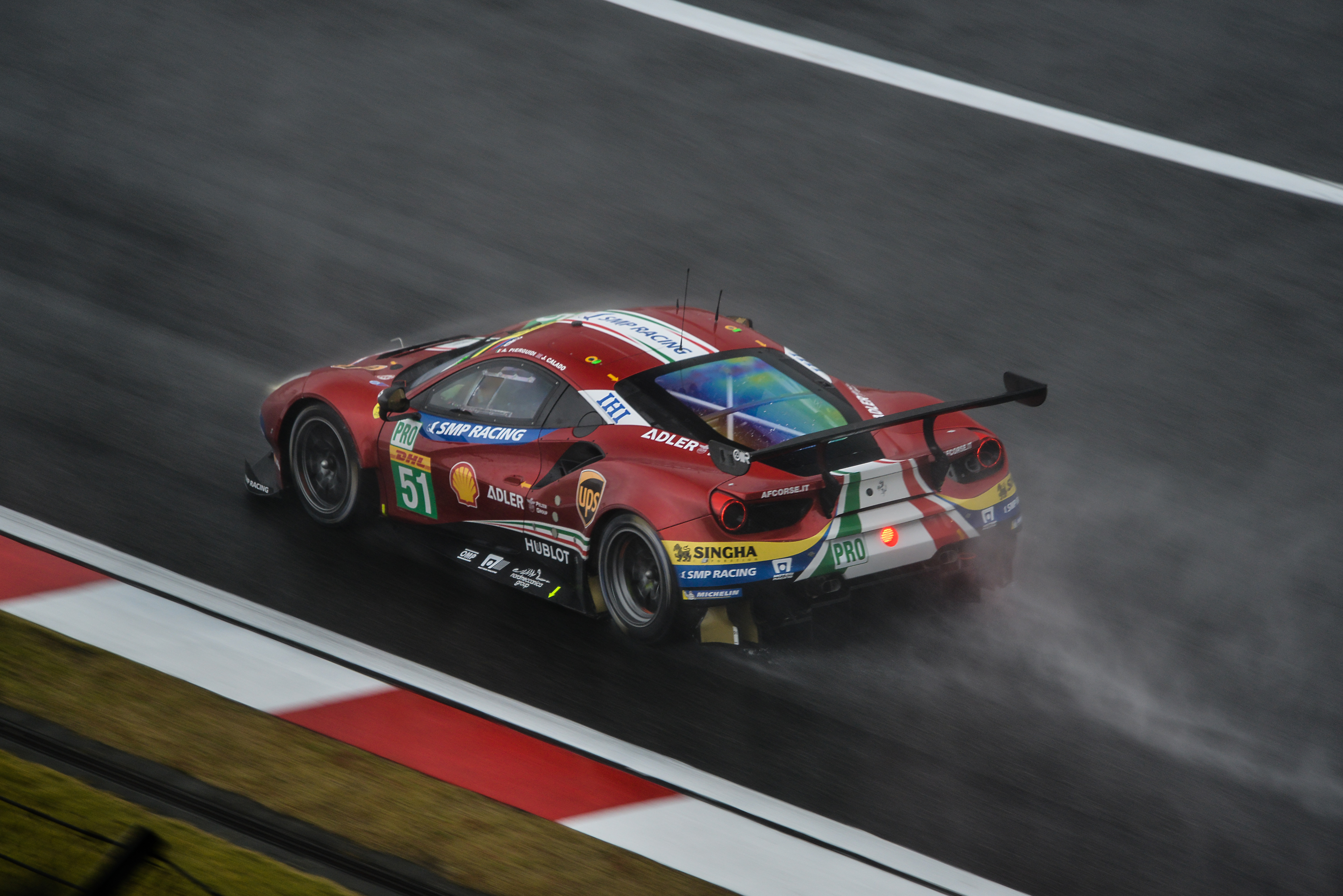 2018 6 Hours of Shanghai.